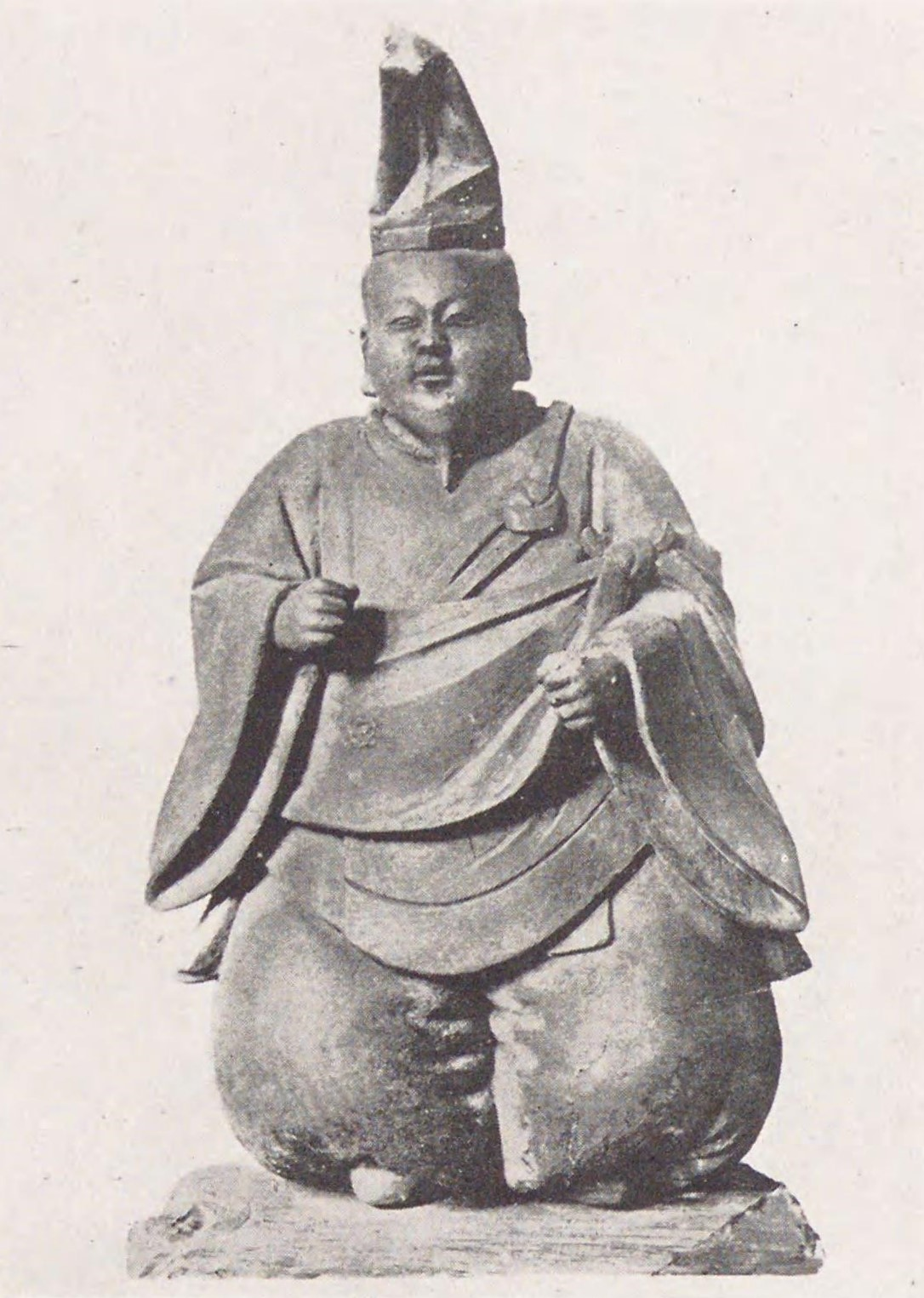 The front of a statue of Izusan Gongen made in Kamakura period at Hannya-in, Atami, Shizuoka prefecture. An Important Cultural Property of Japan. It is an ex-collection of Izusan-jinja.